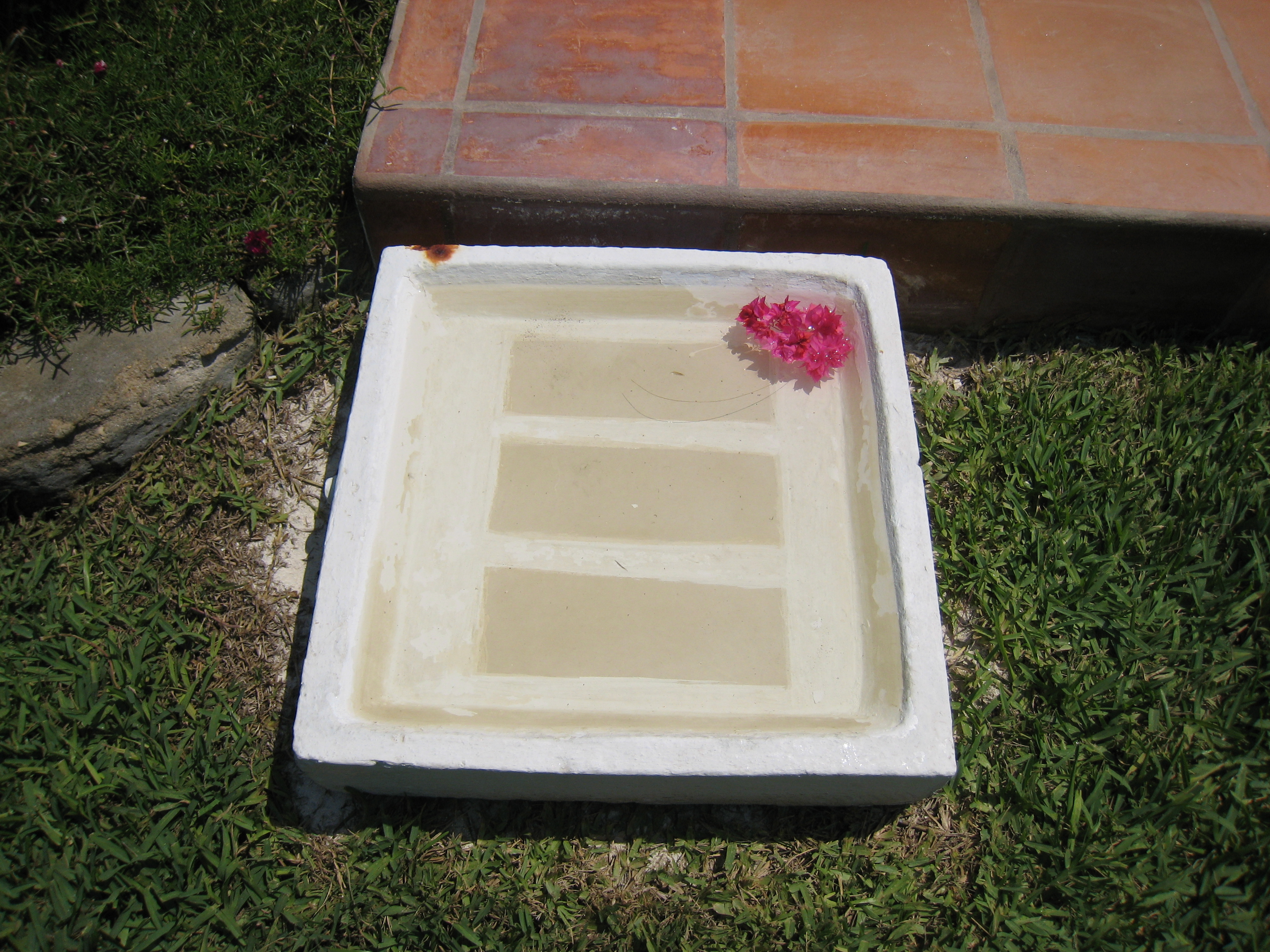 A footbath to wash the sand off your feet before you go inside.